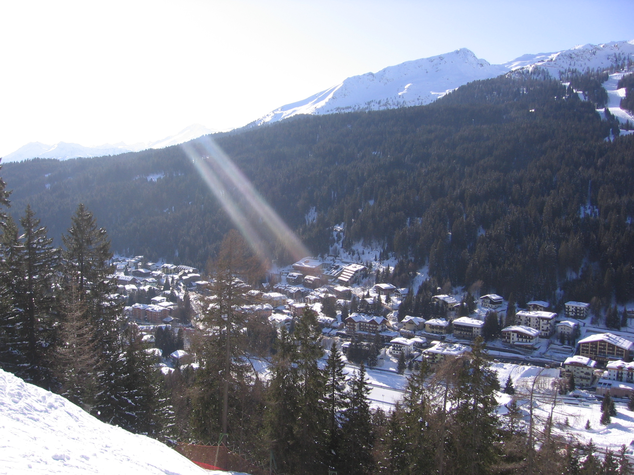 View of Madonna di Campiglio (Italy) from east.